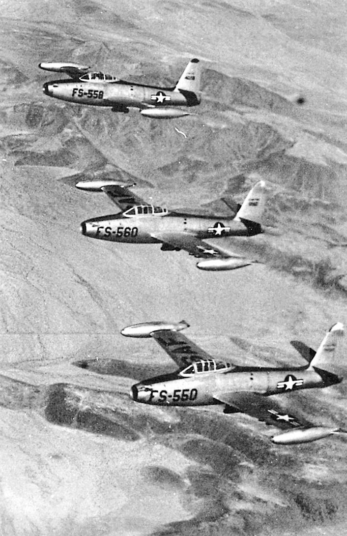 3600th Flying Training Wing - Republic F-84C-11-RE Thunderjets - Luke AFB Arizona, Seriala 47-1558, 47-1560, and 47-1550